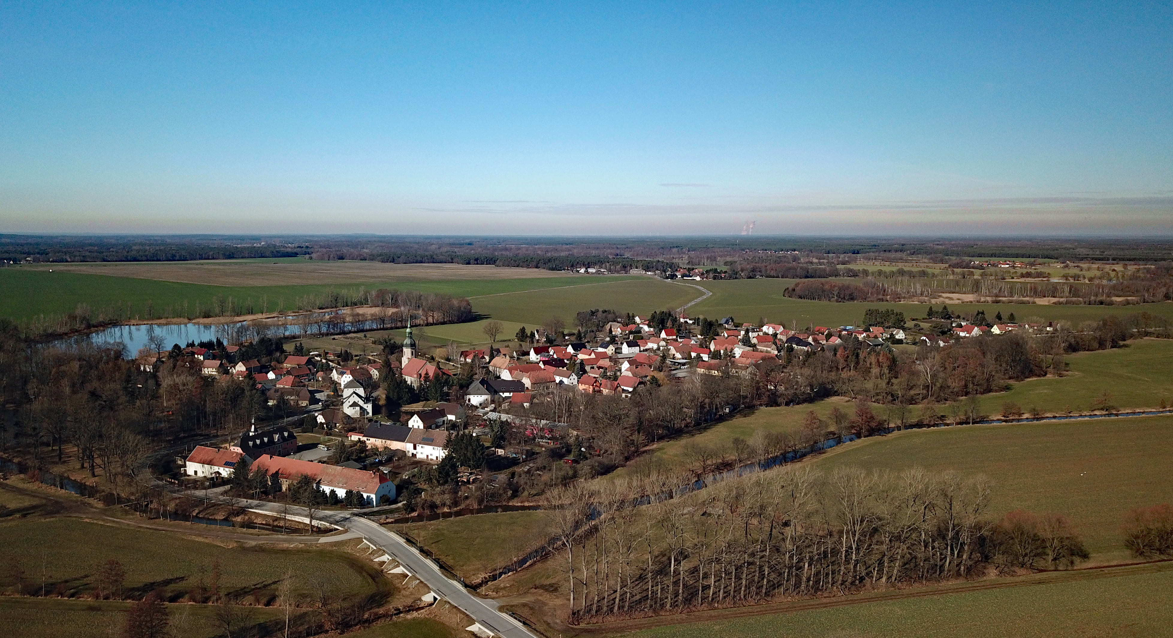 Klix, Großdubrau, Saxony, Germany Hornjoserbsce: Powětrowy wobraz Klukša